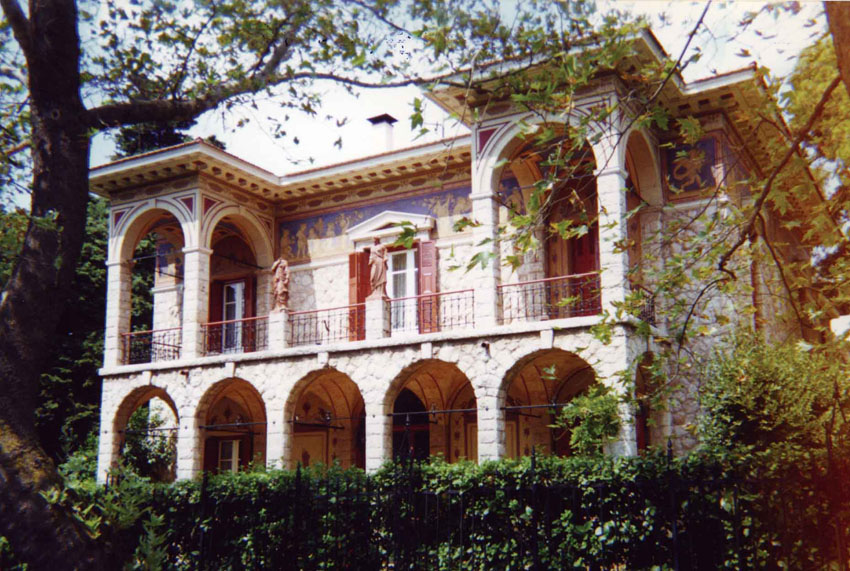 author - self